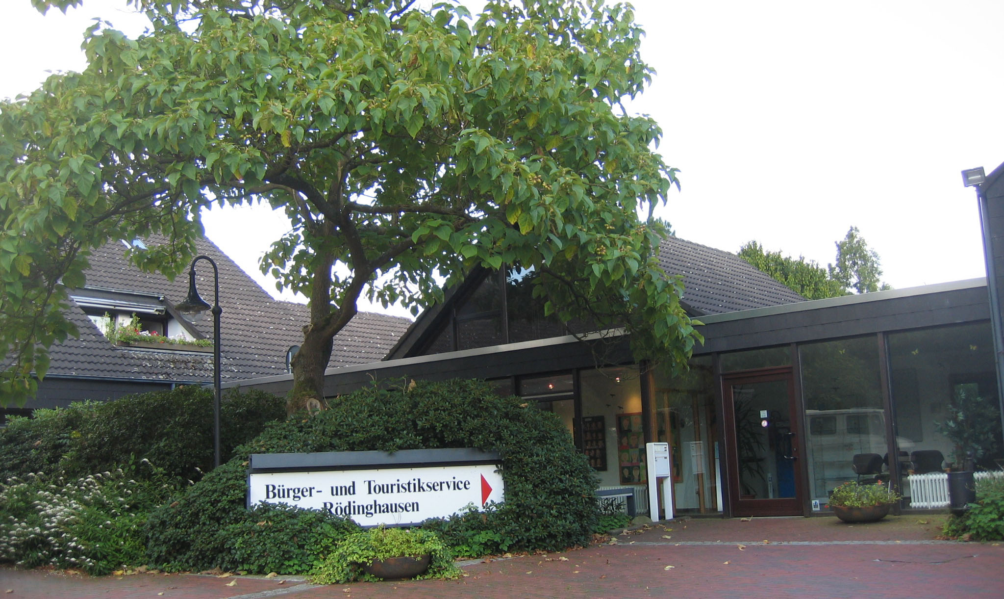 Haus des Gastes with tourist information in the town of Rödinghausen, Germany.